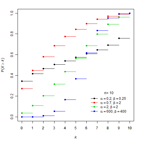 Beta-binomial distribution cumulative distribution function (cdf)